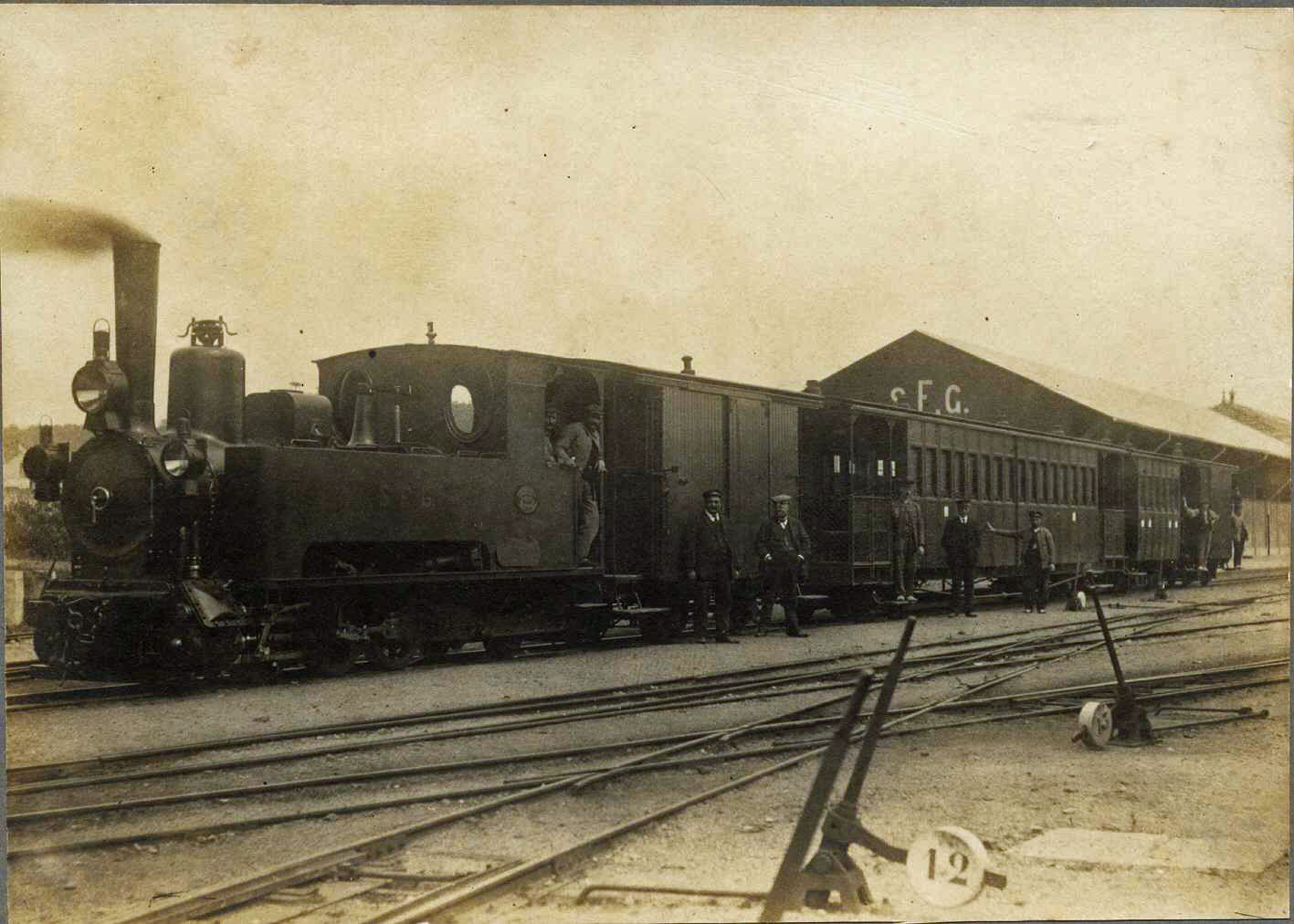 Train workers posing for posterity in Sant Feliu de Guíxols, 1900